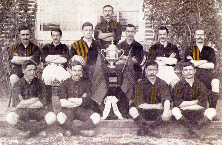 The football team of Uruguayan club CURCC, posing with the trophy given to the Primera División winner.